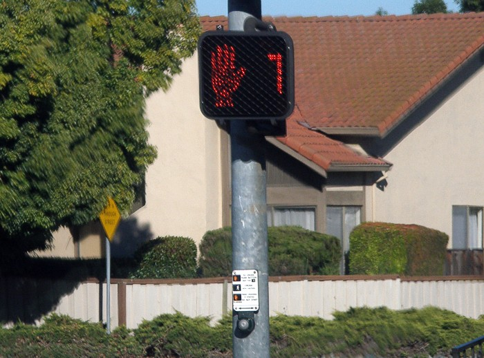 A pedestrian signal with countdown timer at a pedestrian crossing. This crossing is at the intersection of De Anza Boulevard and Lazaneo Drive in Cupertino.